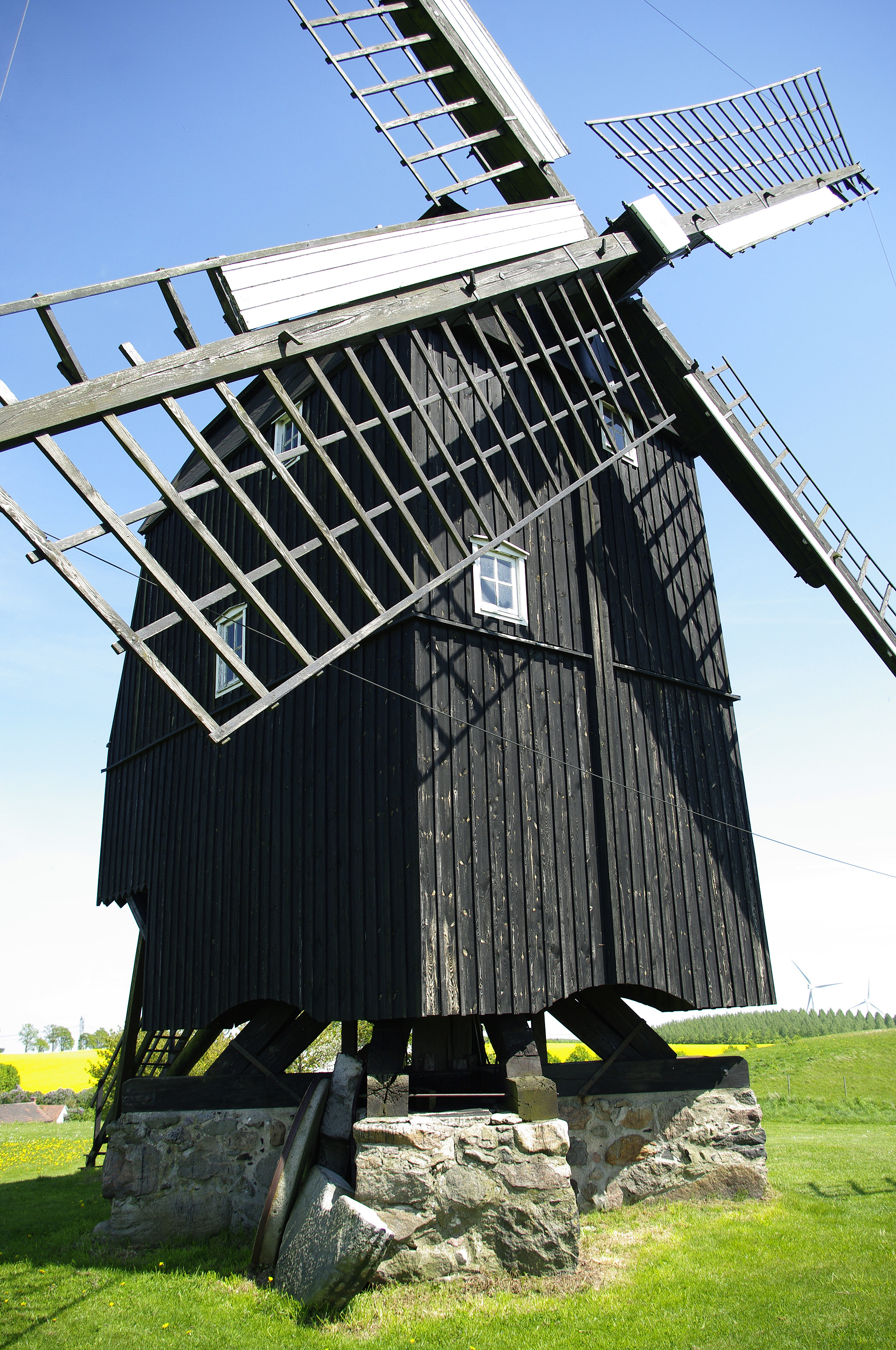 Skabersjo windmill in Scania near Malmo, Sweden